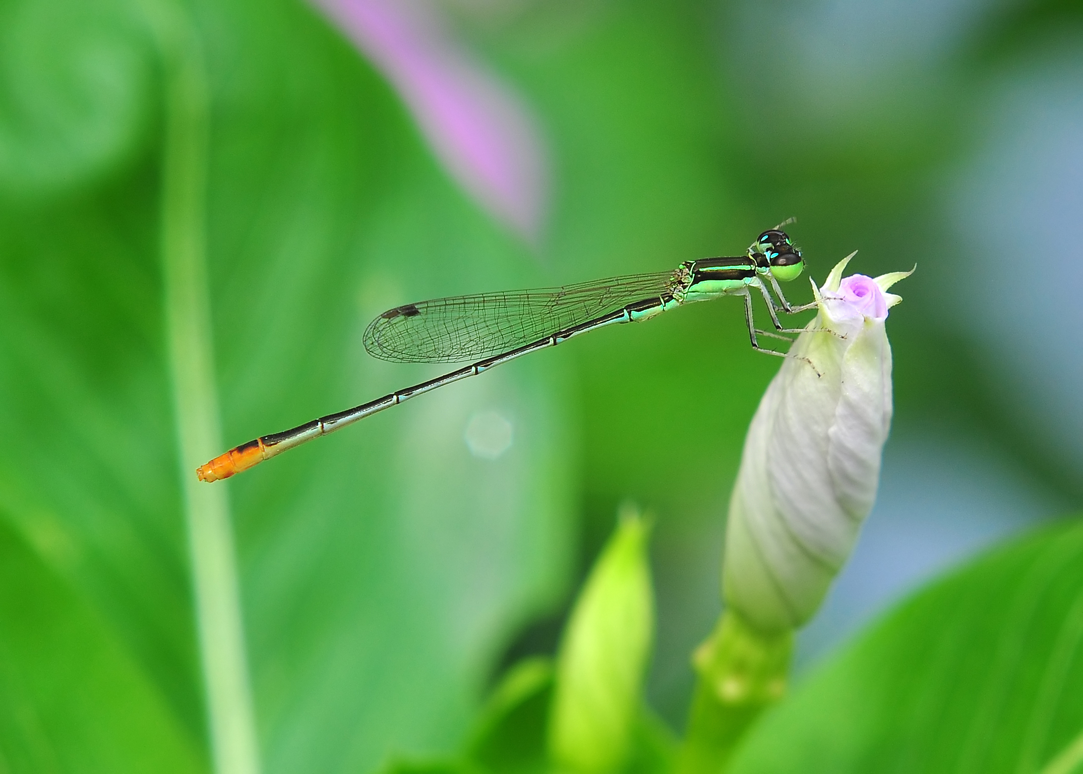 Pigmy Dartlet (Agriocnemis pygmaea) male, a very small (less than 20mm long, 1-2mm thick) apple green damselfly with black thoracic stripes orange colored terminal abdominal segments. Common in marshes, ponds, and sea shore. Darts among vegetation and flies very close to the ground. Distributed throughout the Oriental, Australian regions and Pacific islands. Taken at Burdwan, West Bengal, India.